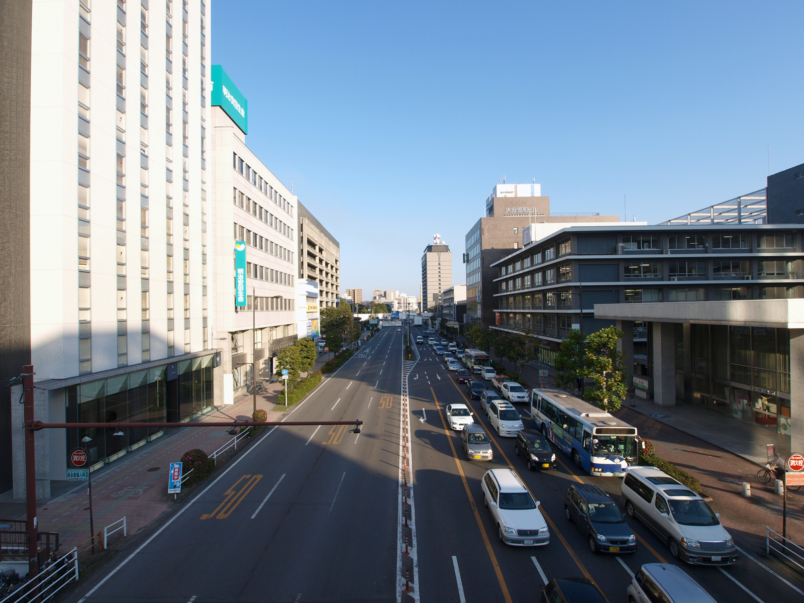 Route 197, Oita City, Oita Pref., Japan